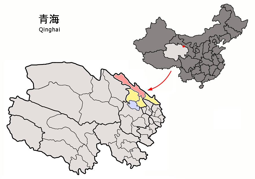 Location of Qilian County (pink) and Haibei Prefecture (yellow) within Qinghai province of China Map drawn in september 2007 using various sources, mainly : Qinghai province administrative regions GIS data: 1:1M, County level, 1990 Qinghai Counties map from "Plateau Perspectives" (the limits of some county-level subdivisions may not be accurate)